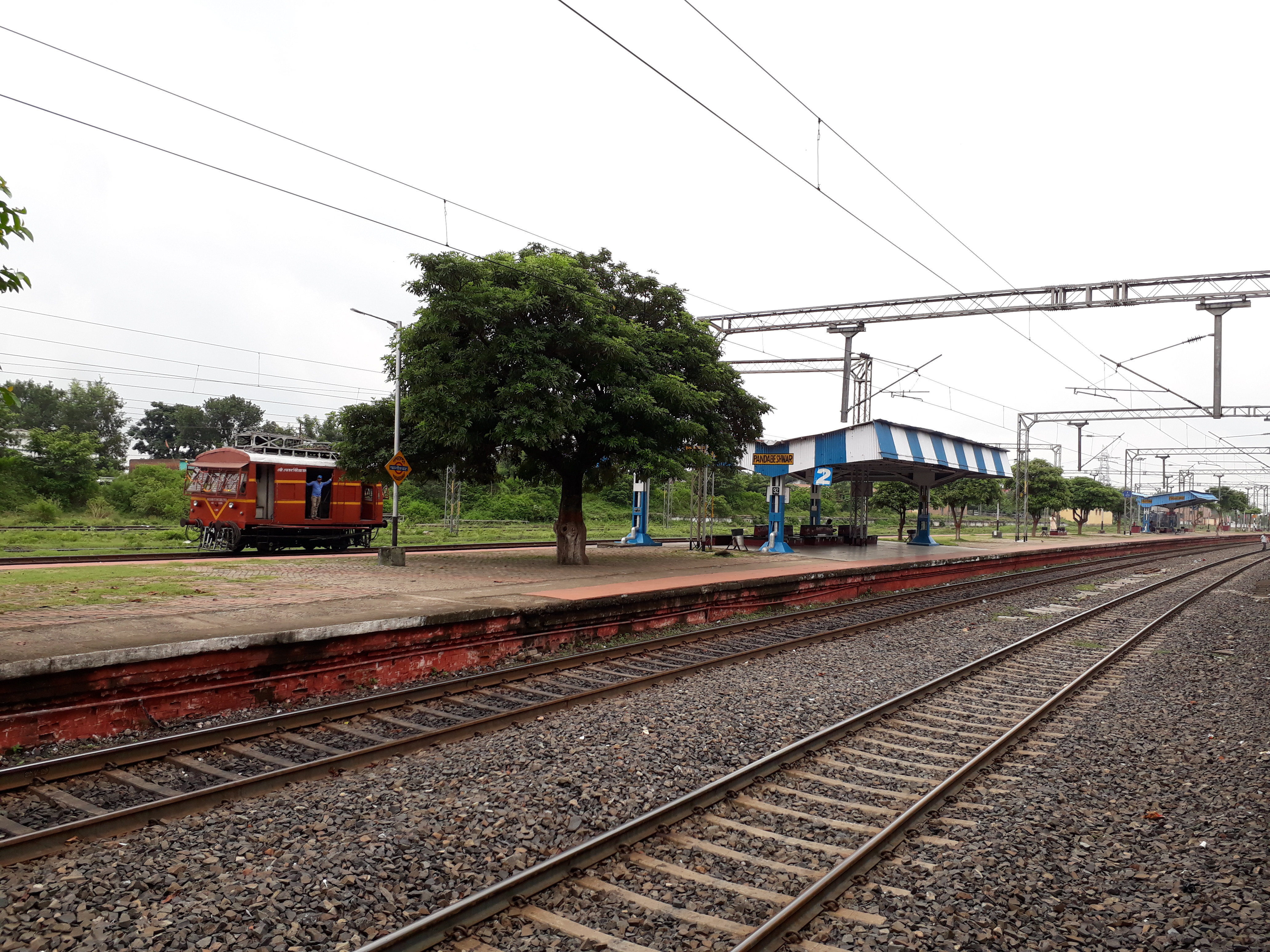 Pandabeswar railway station in Andal -Sainthia Branch line, West Bardhaman district, West Bengal